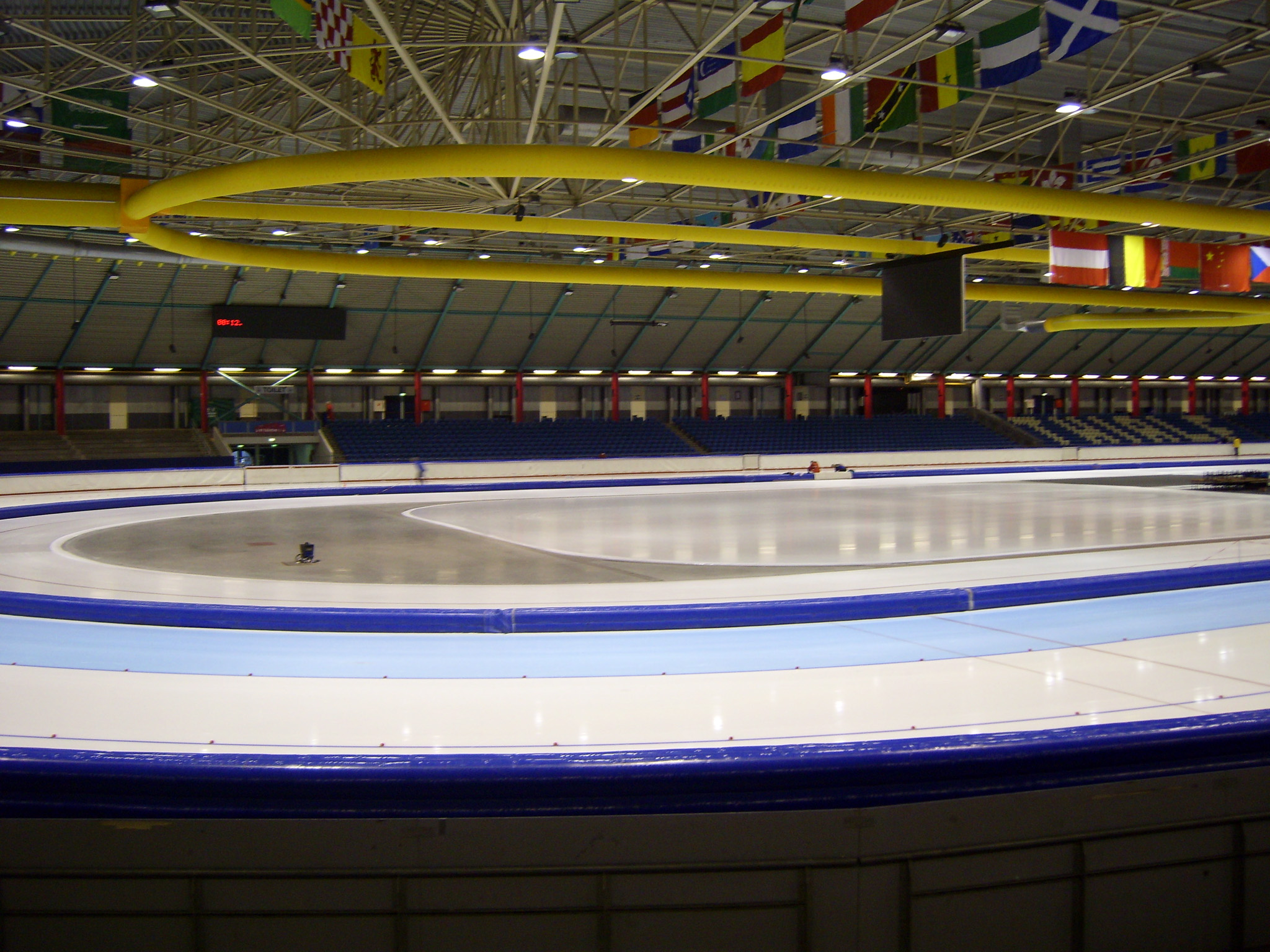 Thialf, Heerenveen, 9th Masters International Long Distance Races 2012